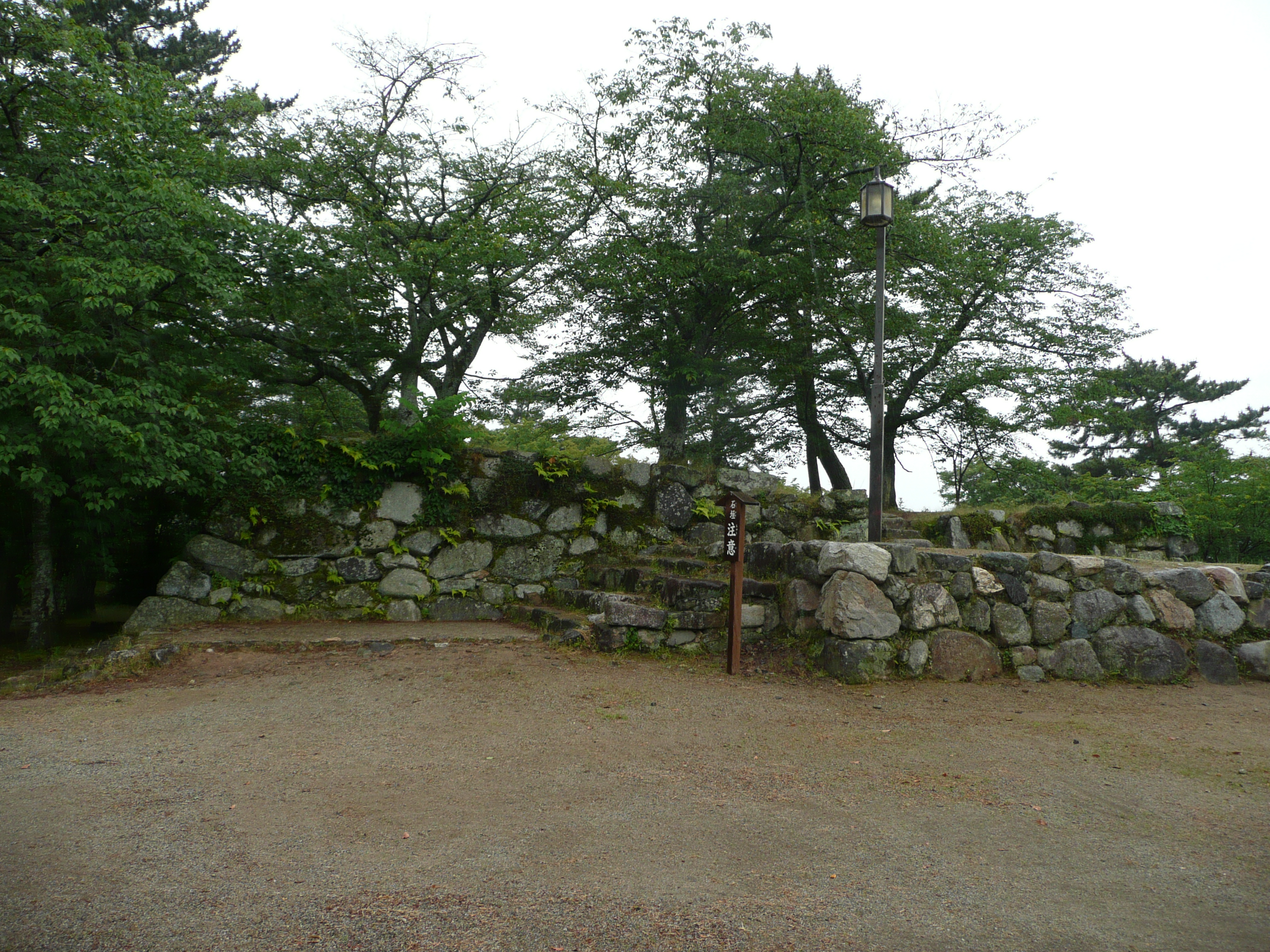 松阪城の天守台